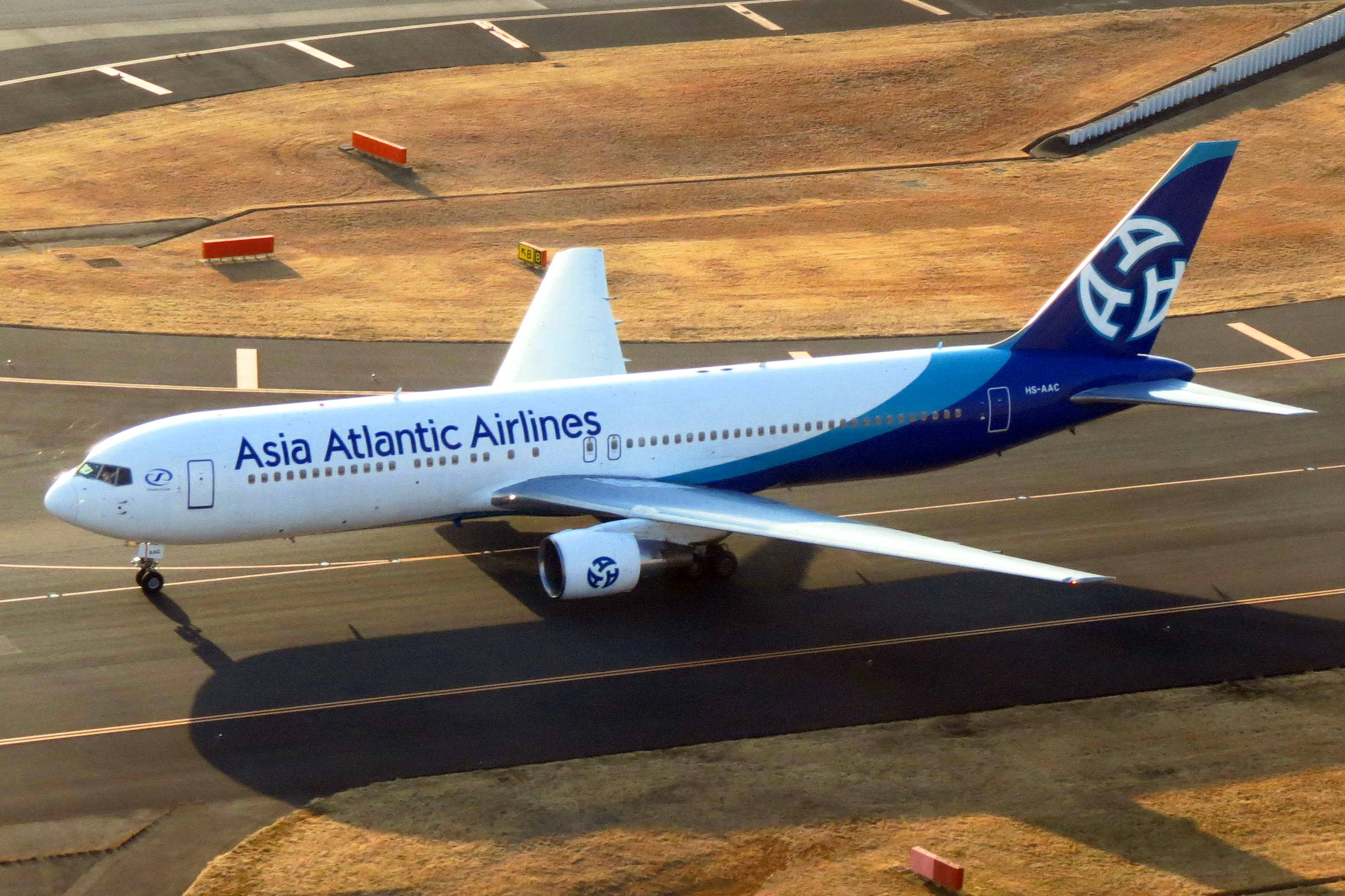 Asia Atlantic Airlines Boeing 767-300 Narita International Airport